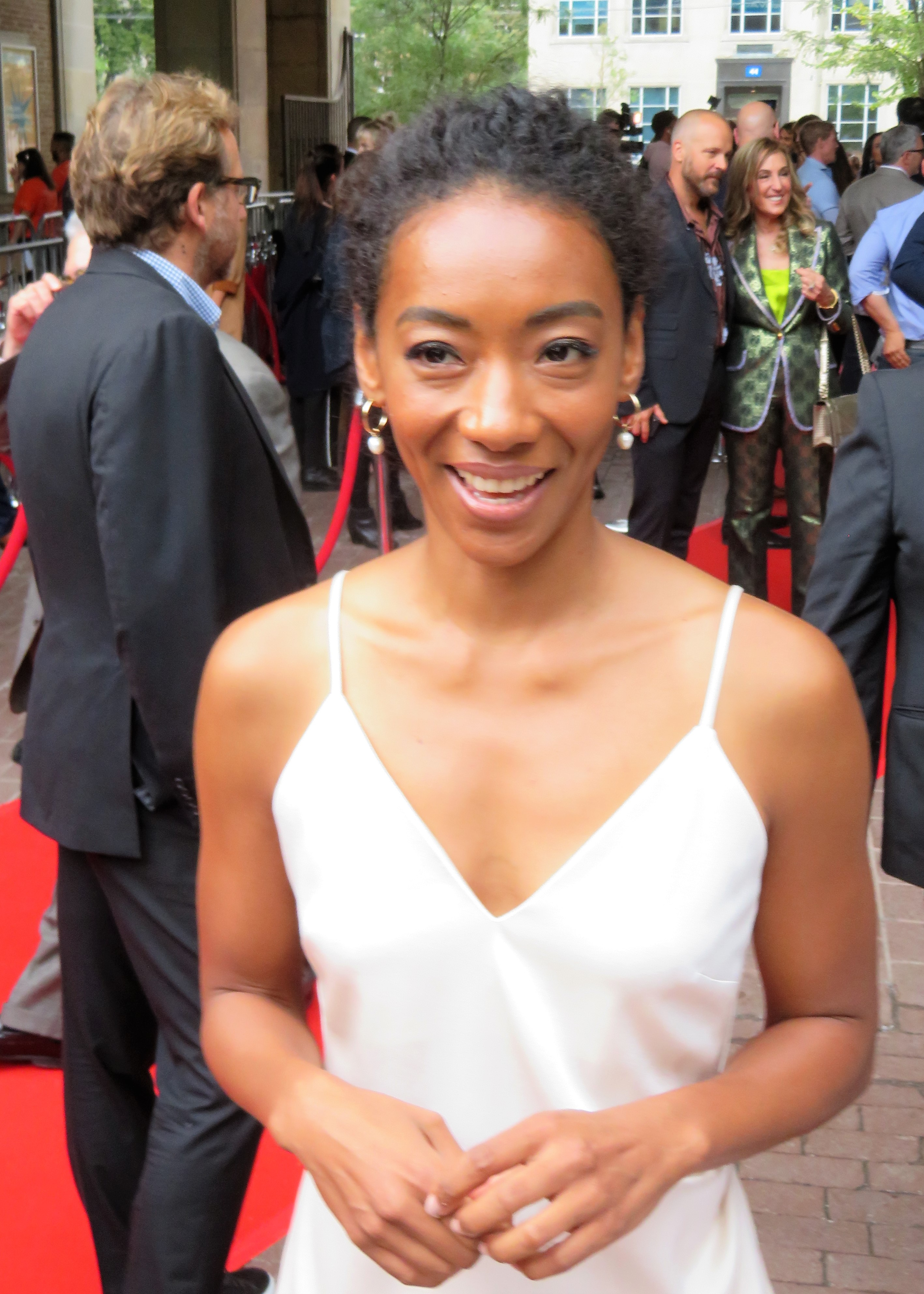 Betty Gabriel at the premiere of Human Capital, 2019 Toronto Film Festival